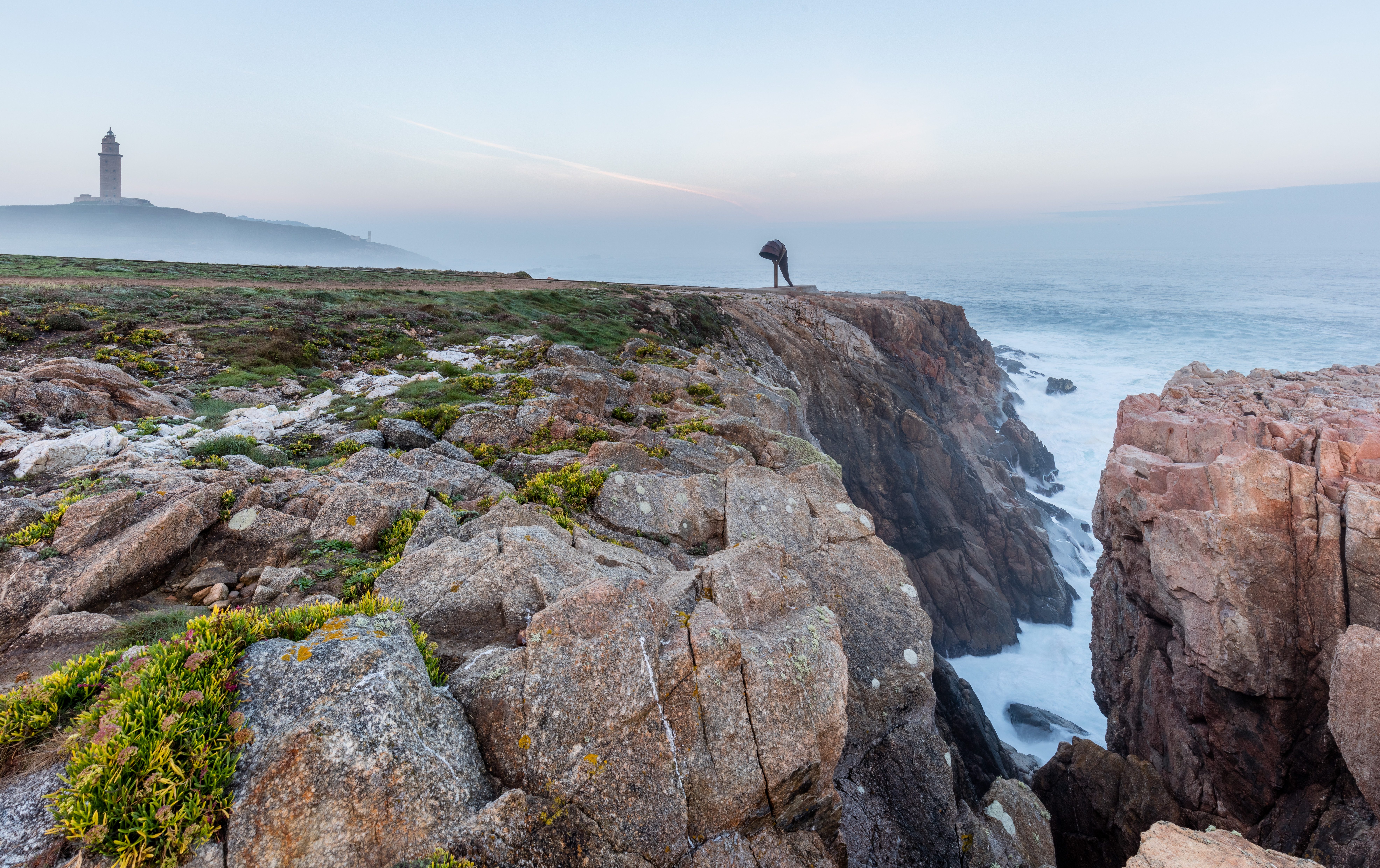 Caracola (Snail), Tower Park, La Coruña, Spain